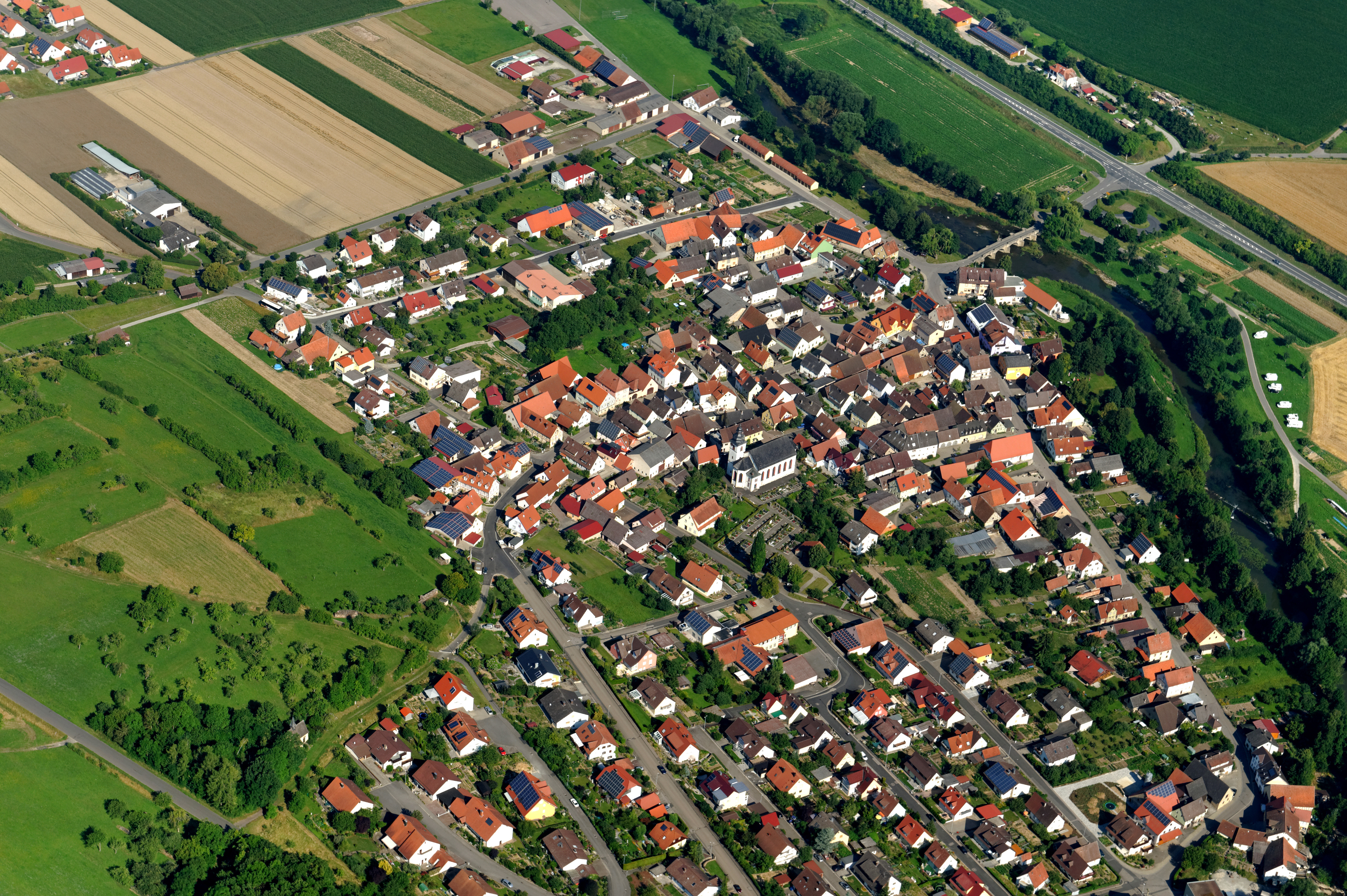 Tauberrettersheim with the bridge of Balthasar Neumann.